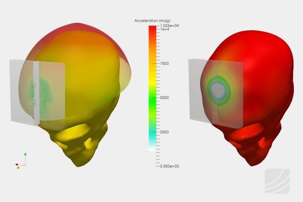 In this project, a dynamic nonlinear impact analysis of a human skull with and without helmet was performed, using the cloud-based CAE software SimScale.